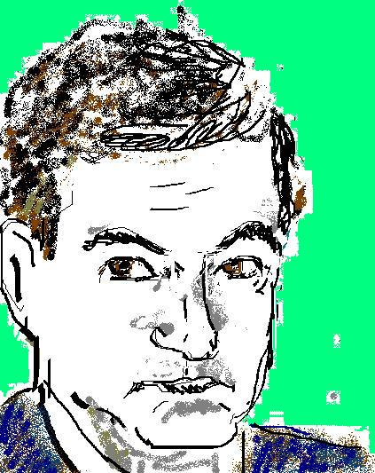 (Meant to depicture Erving Goffman???)